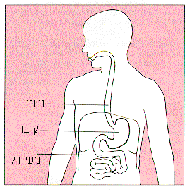 Translated from Image:Stomach diagram.gif